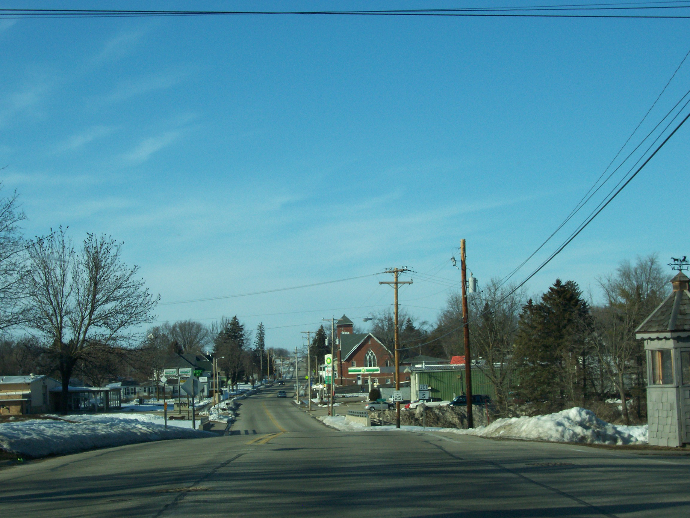 Looking north at Markesan, Wisconsin, USA while travelling on Wisconsin Highway 44. Taken March 11, 2007 by myself.